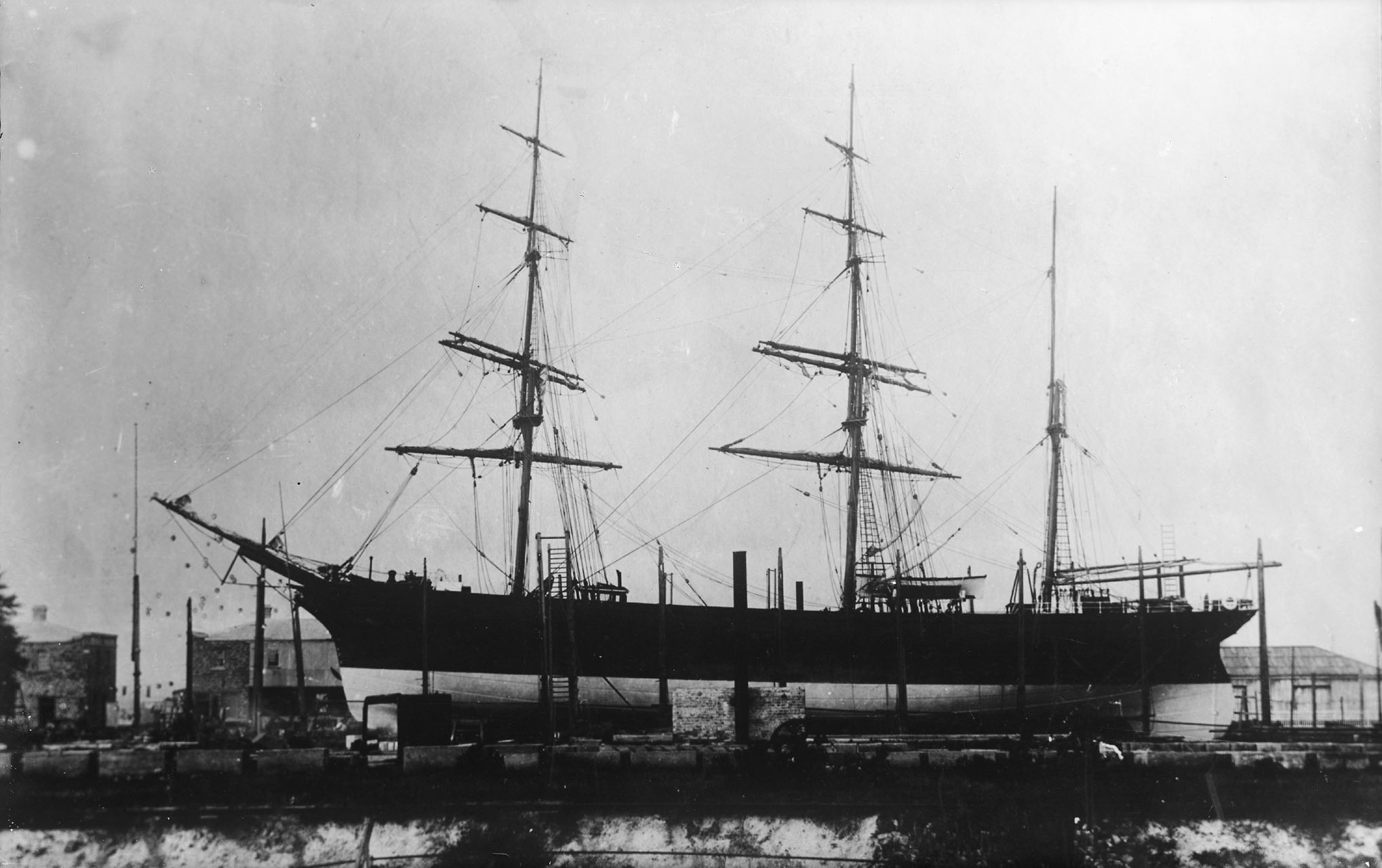 Original caption: “The three-masted barque 'Otago', built in 1869 and owned by Grierson & Company of Adelaide. This was the only vessel commanded by Józef Korzeniowski, who later became famous as the writer Joseph Conrad. Korzeniowski took command of the 'Otago' in Bangkok in January 1888. He sailed her back to Sydney and then made a return trip to Mauritius before relinquishing his post in March 1889.”